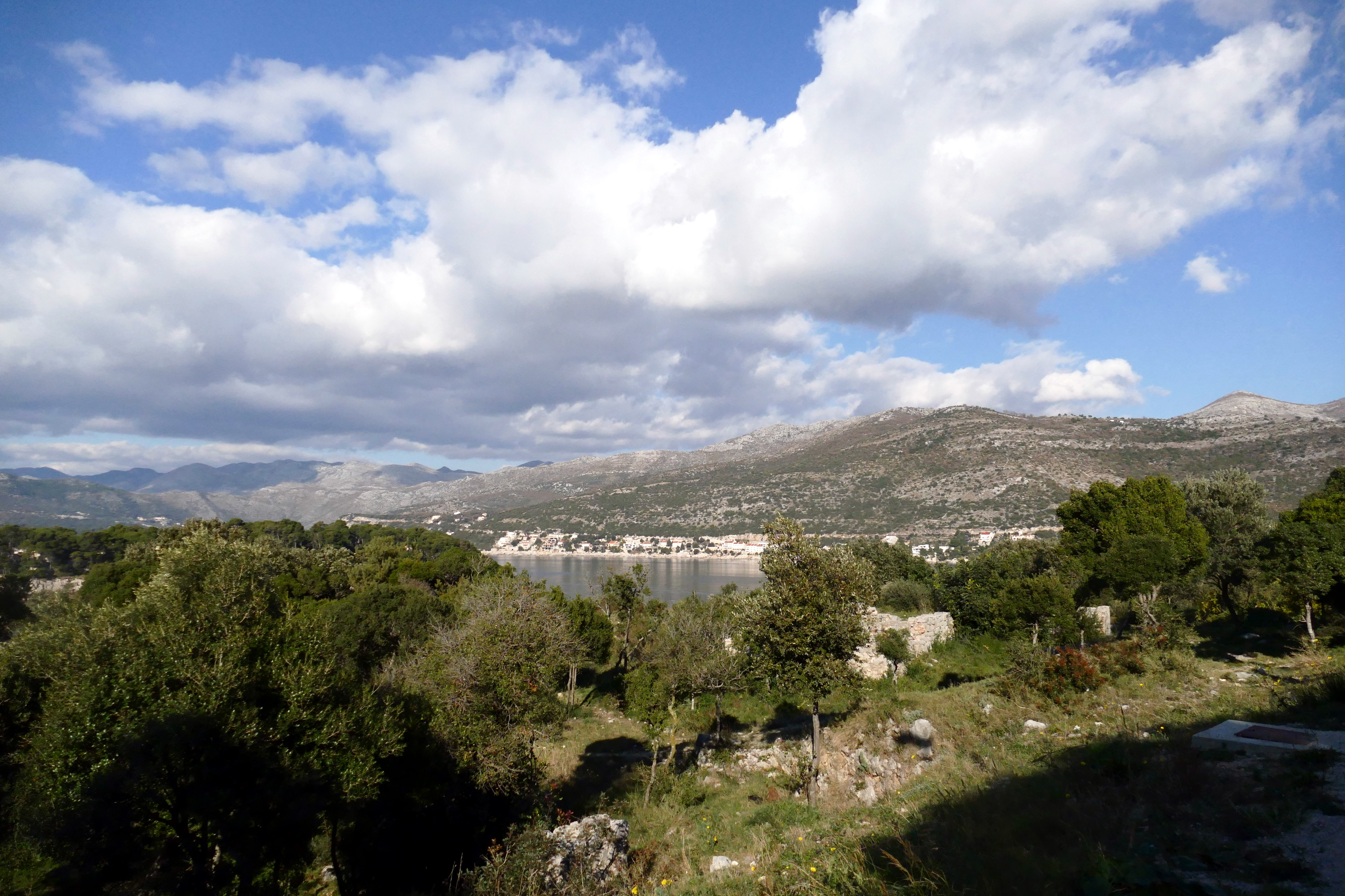 2.1.17 Gruz